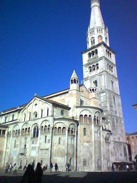 Modena - The Cathedral I took this picture on Christmas 2003 Bergonzc 21:12, 26 Apr 2004 (UTC)